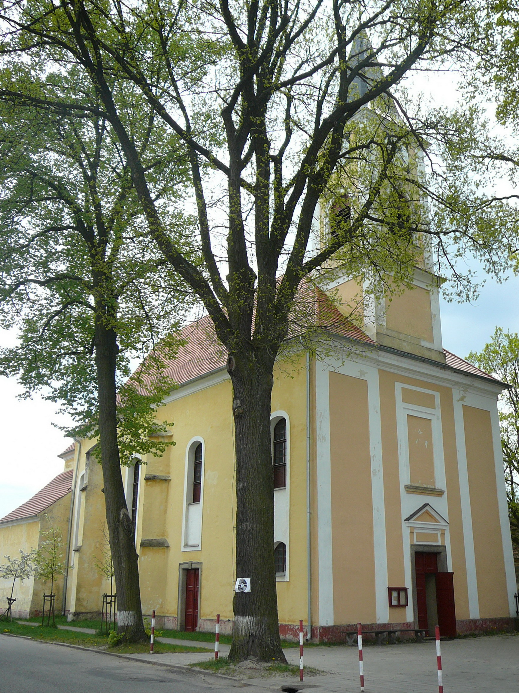 St. Nicholas Church in Suchdol nad Lužnící (Suchenthal), South Bohemia, the Czech Republic